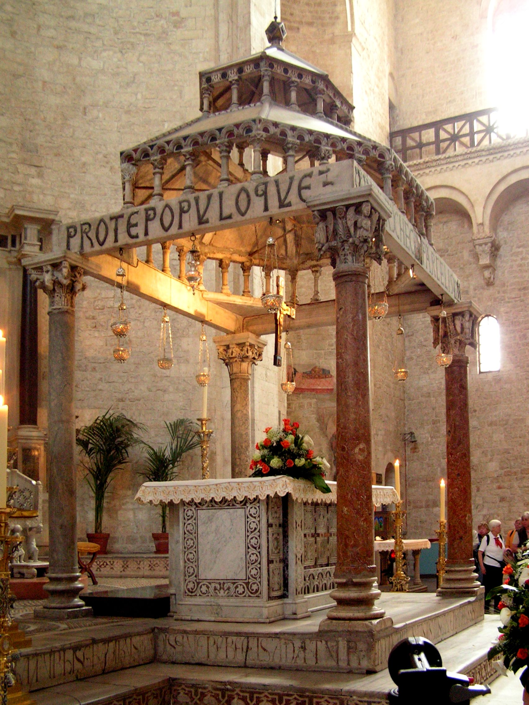 Cyborium (pyx) in Basilica S. Nicolas, Bari, Italy